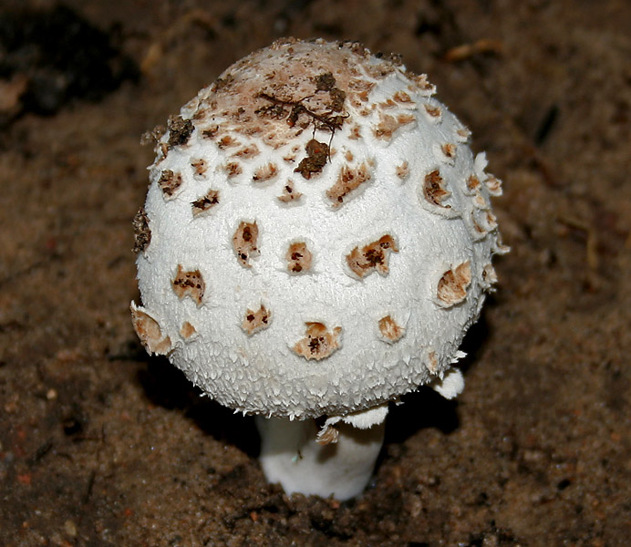 Shaggy Parasol (Chlorophyllum brunneum, syn. Macrolepiota rhacodes var. hortensis, East Bohemia, Europe